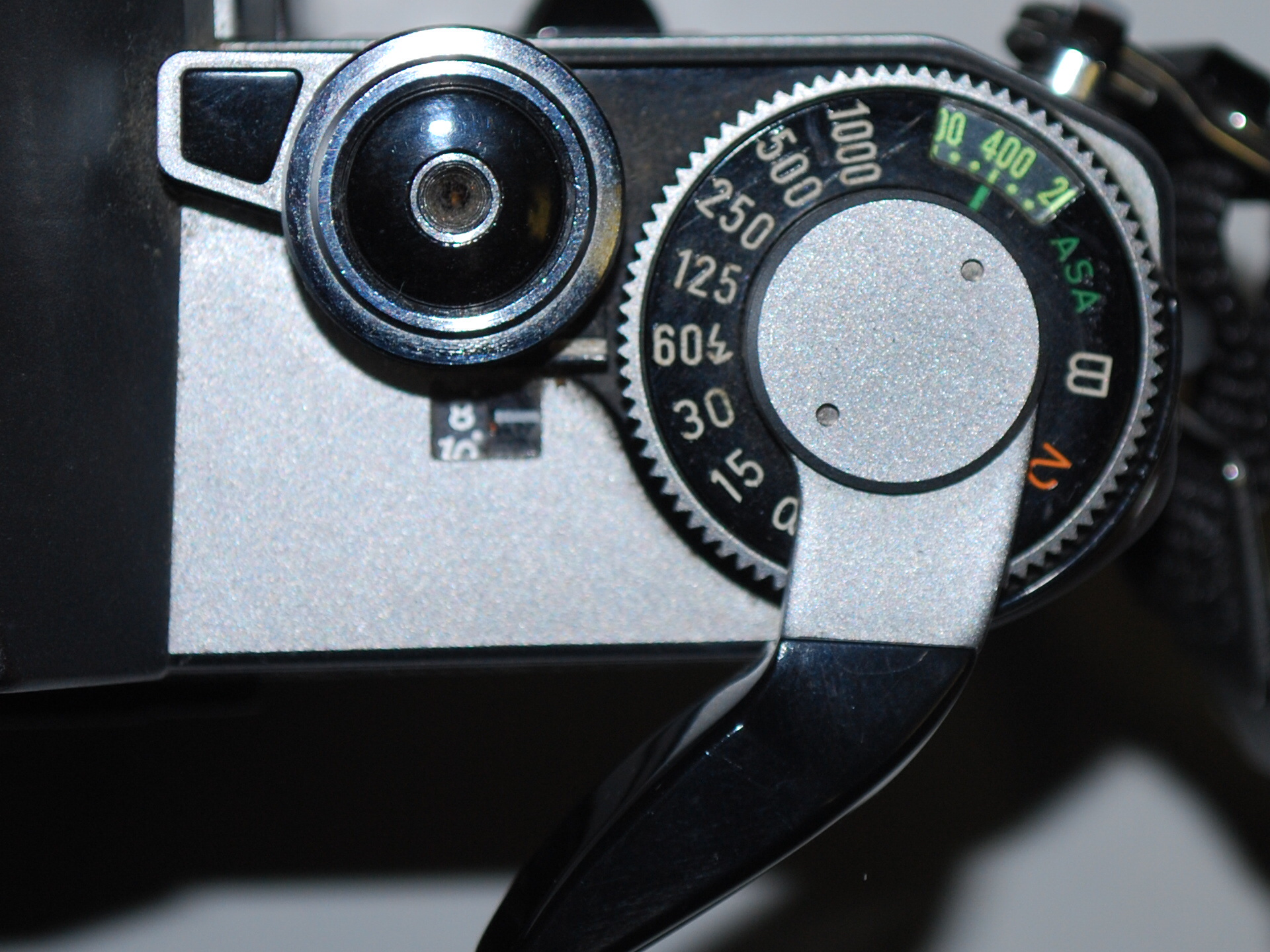 Right side of the Canon AE-1